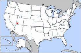 Description Locator map of Zion National Park — in southwestern Utah, western United States. Illustrator Huebi